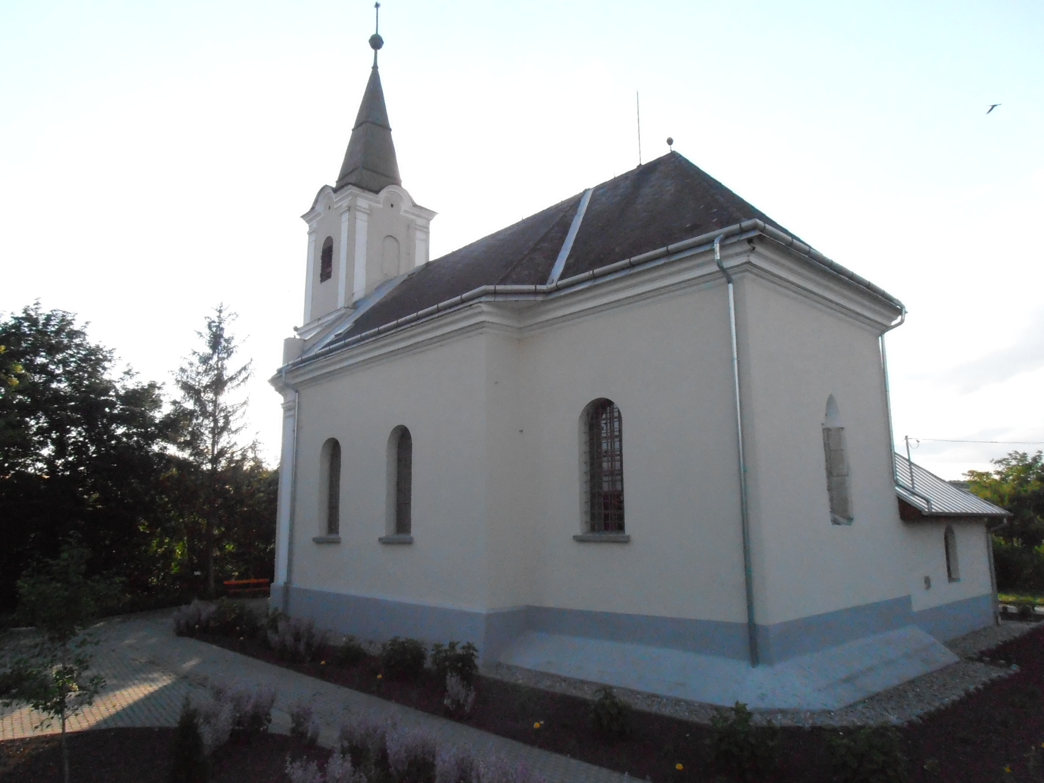 Protestant temple in Fancsal, Hungary Evangélikus templom Fancsalon